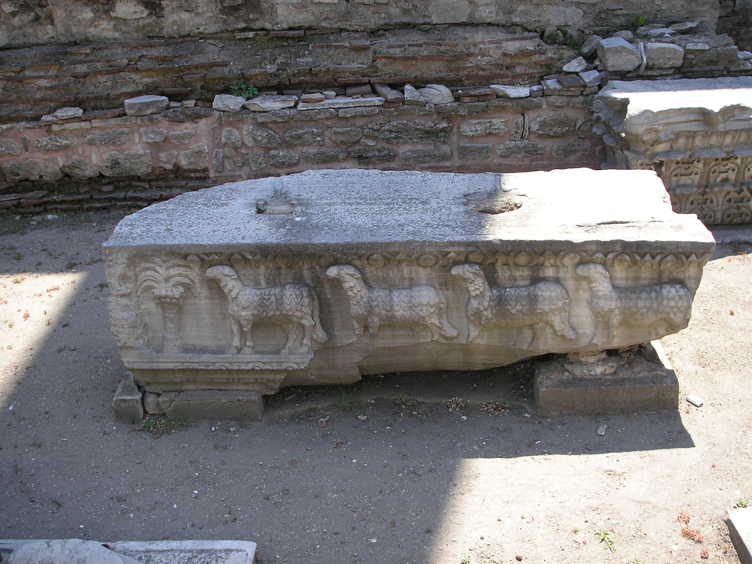 Images of the remains of the basilica that was constructed during the reign of emperor Theodosius II and stood from 415 C.E. - 532 C.E. Remains are exhibited next to the current Hagia Sophia.